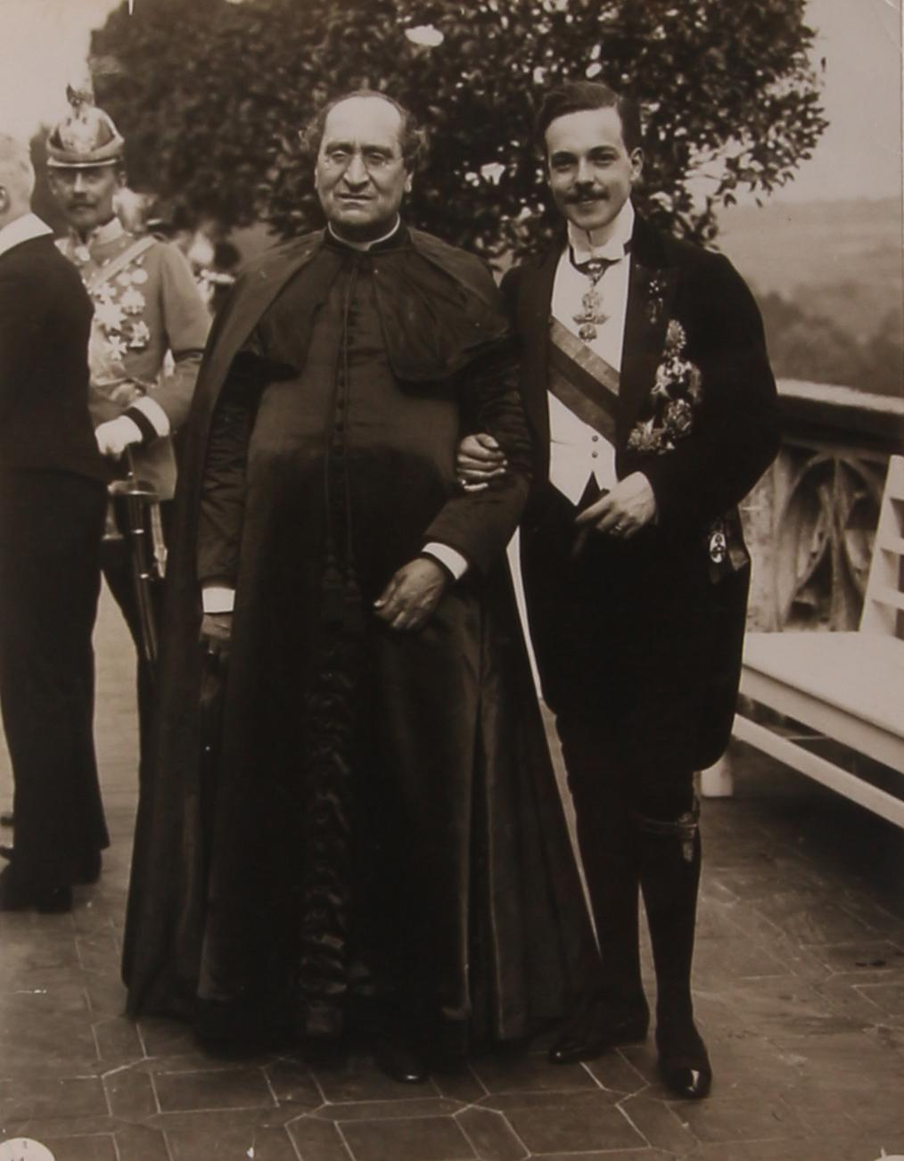 King Manuel II of Portugal and Cardinal José Sebastião de Almeida Neto, during the former's wedding in Sigmaringen, in 1913